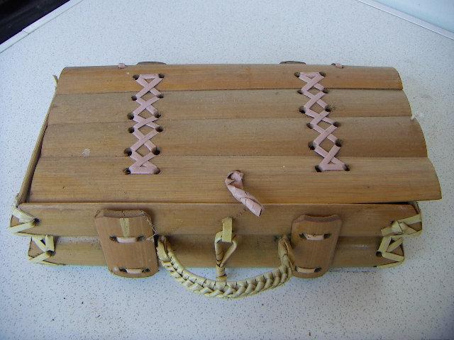 Suitcase made of bamboo.